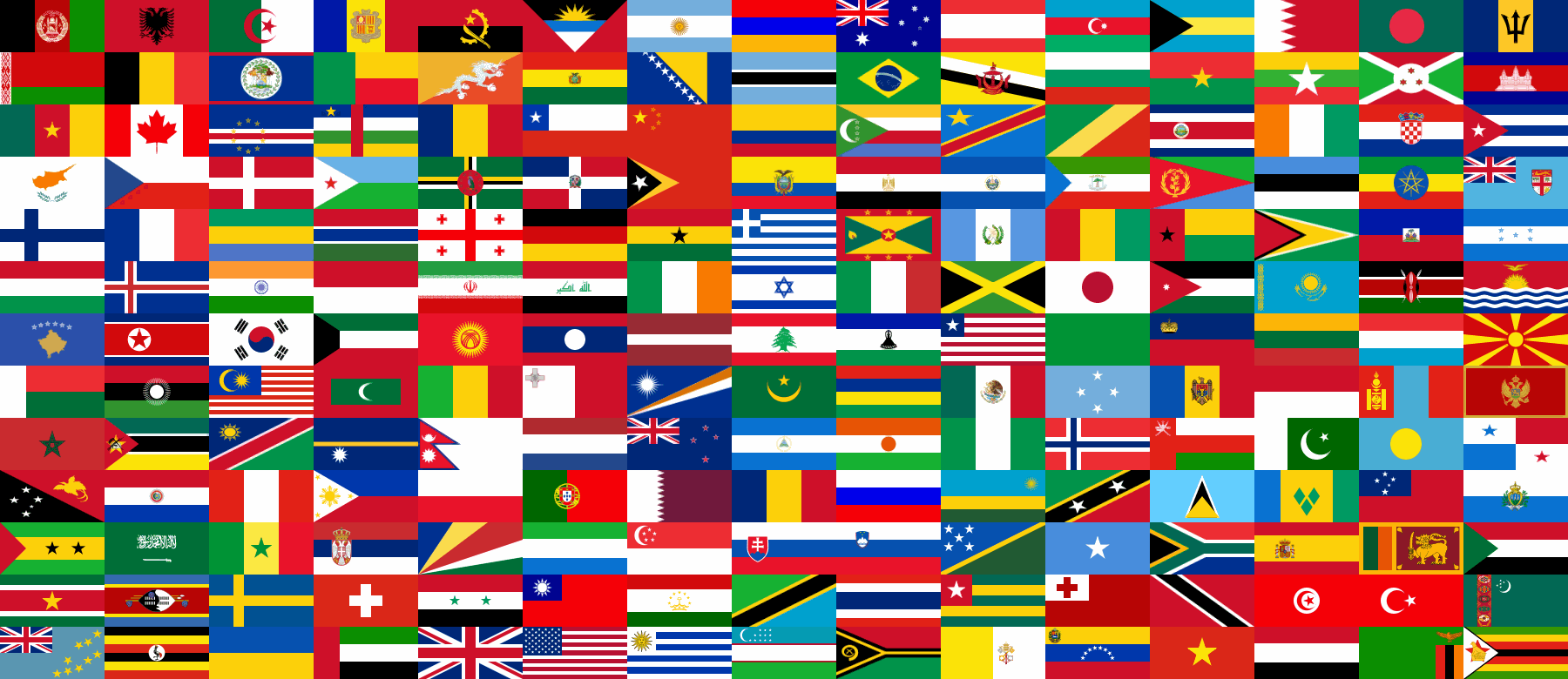 A collection of 195 national flags, arranged in Alphabetical order.